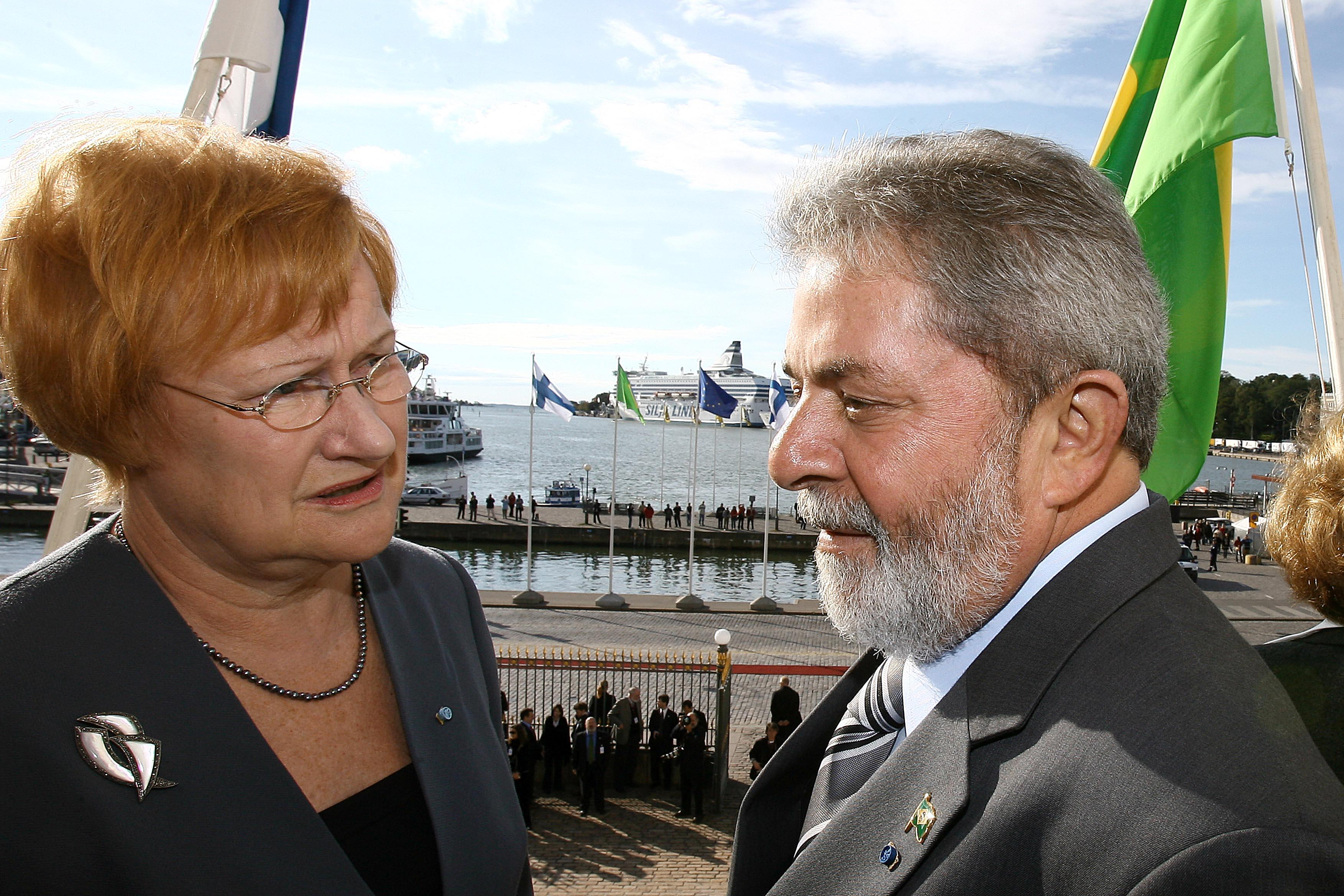 Tarja Halonen, President of the Republic of Finland, and Luiz Inácio Lula da Silva, President of Brazil